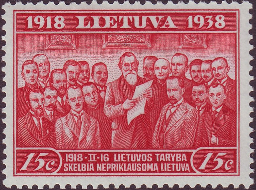 Stamp of Lithuania; 1939; commemorative issue to the 20th anniversary of the Republic of Lithuania Inscription: "1918-II-16 - Lietuvos taryba skelbia nepriklausoma Lietuva" = Lithuanian for "16 Feb 1918 - The Lithuanian Council proclaims the independent Lithuania" Stamp: Michel: No. 425 (LT); Yvert & Tellier: No. 366 (LT); AFA: No. 426 (LT) Color: carmine red Watermark: none Nominal value: 15 C. (Centų) Postage validity: from 15 February 1939 until 20 August 1940 date QS:P,+1950-00-00T00:00:00Z/7,P580,+1939-02-15T00:00:00Z/11,P582,+1940-08-20T00:00:00Z/11